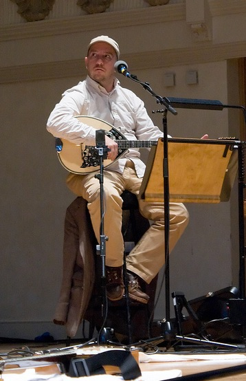 Stephin Merritt at soundcheck in Cadogan Hall, London, July 2008.